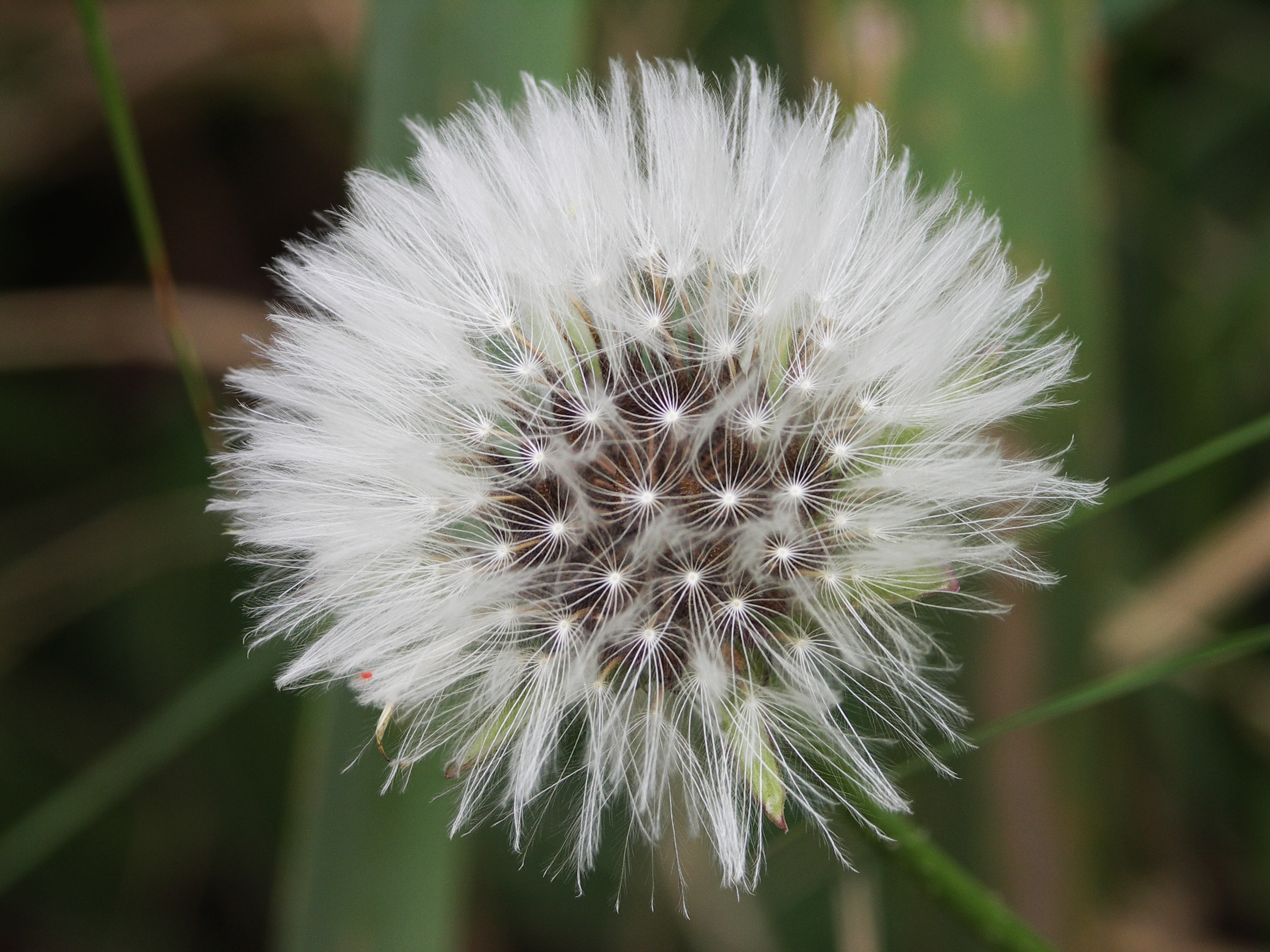 Fruit with flying seeds (Hieracium sp.)